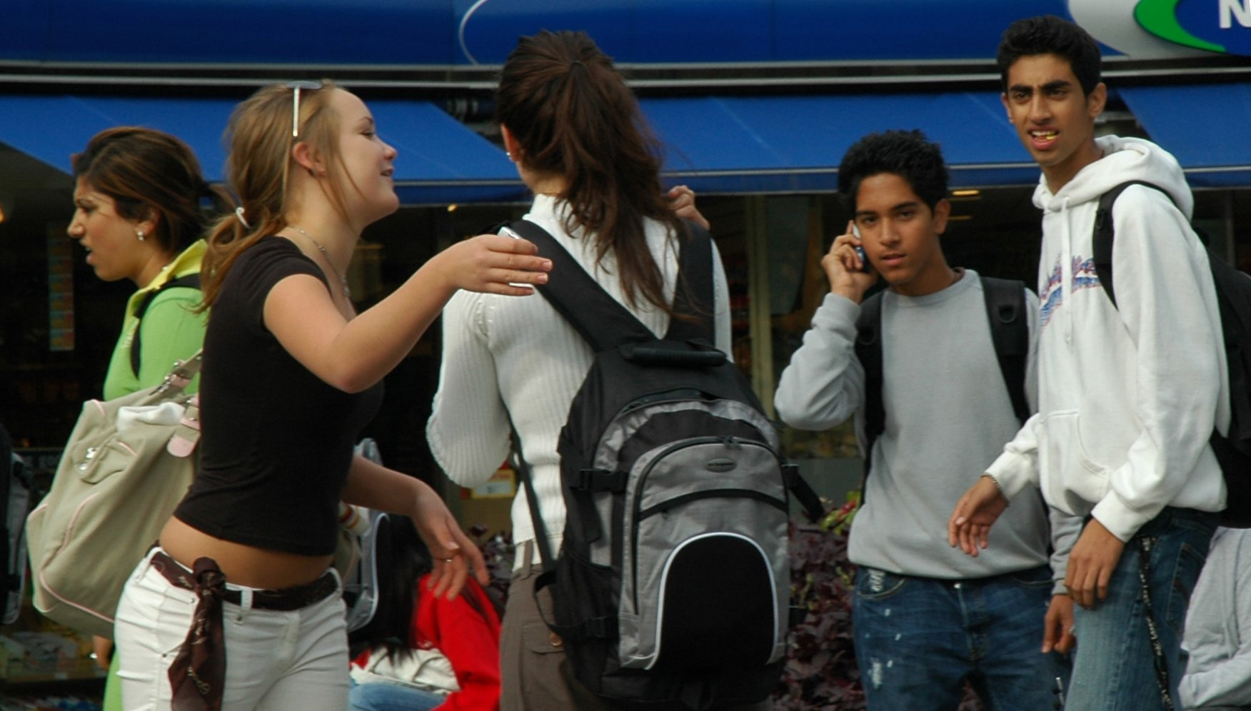 Teenagers of various backgrounds in Oslo, Norway.